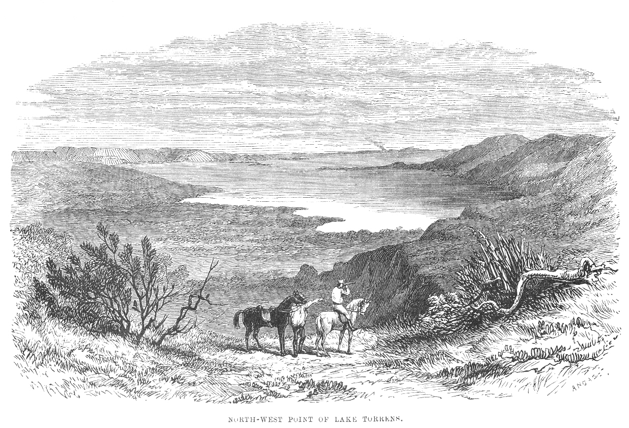 Illustration of his travelogue Explorations in Australia by John McDouall Stuart (1815-1866). Drawing of the North West Point of Lake Torrens.